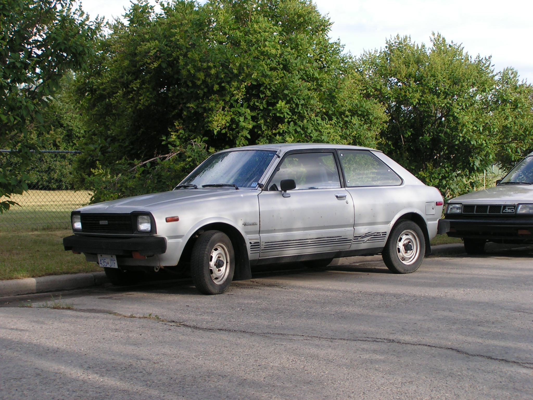 1978-1980 Toyota Tercel